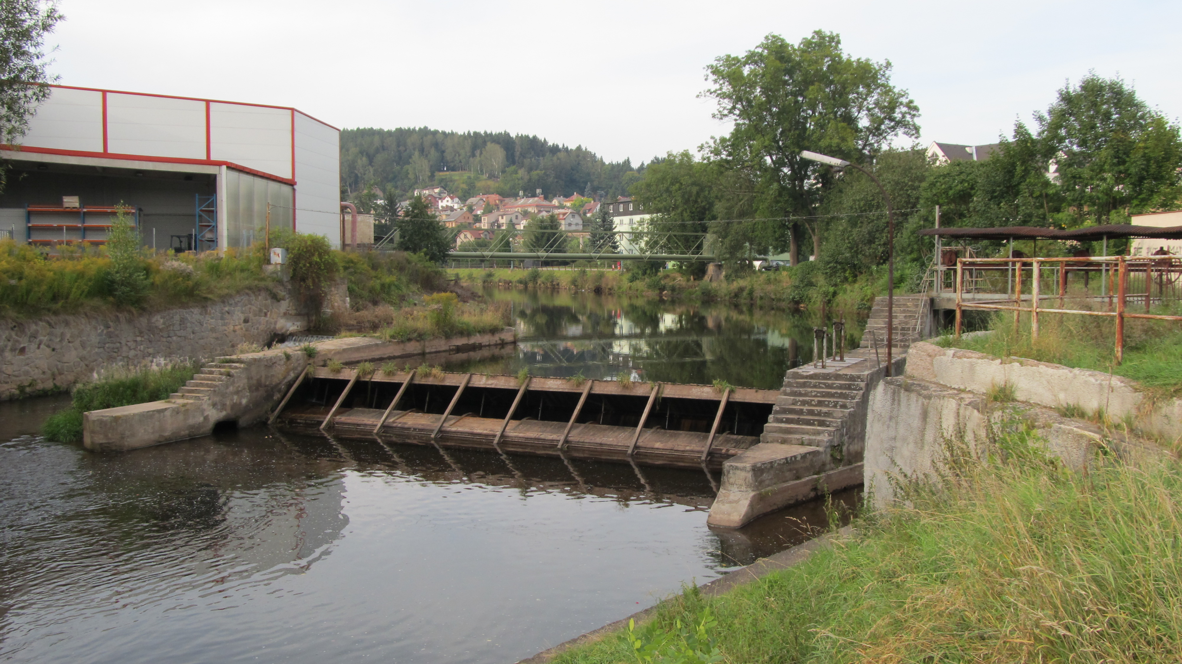 Sluice on the river Úpa in Úpice